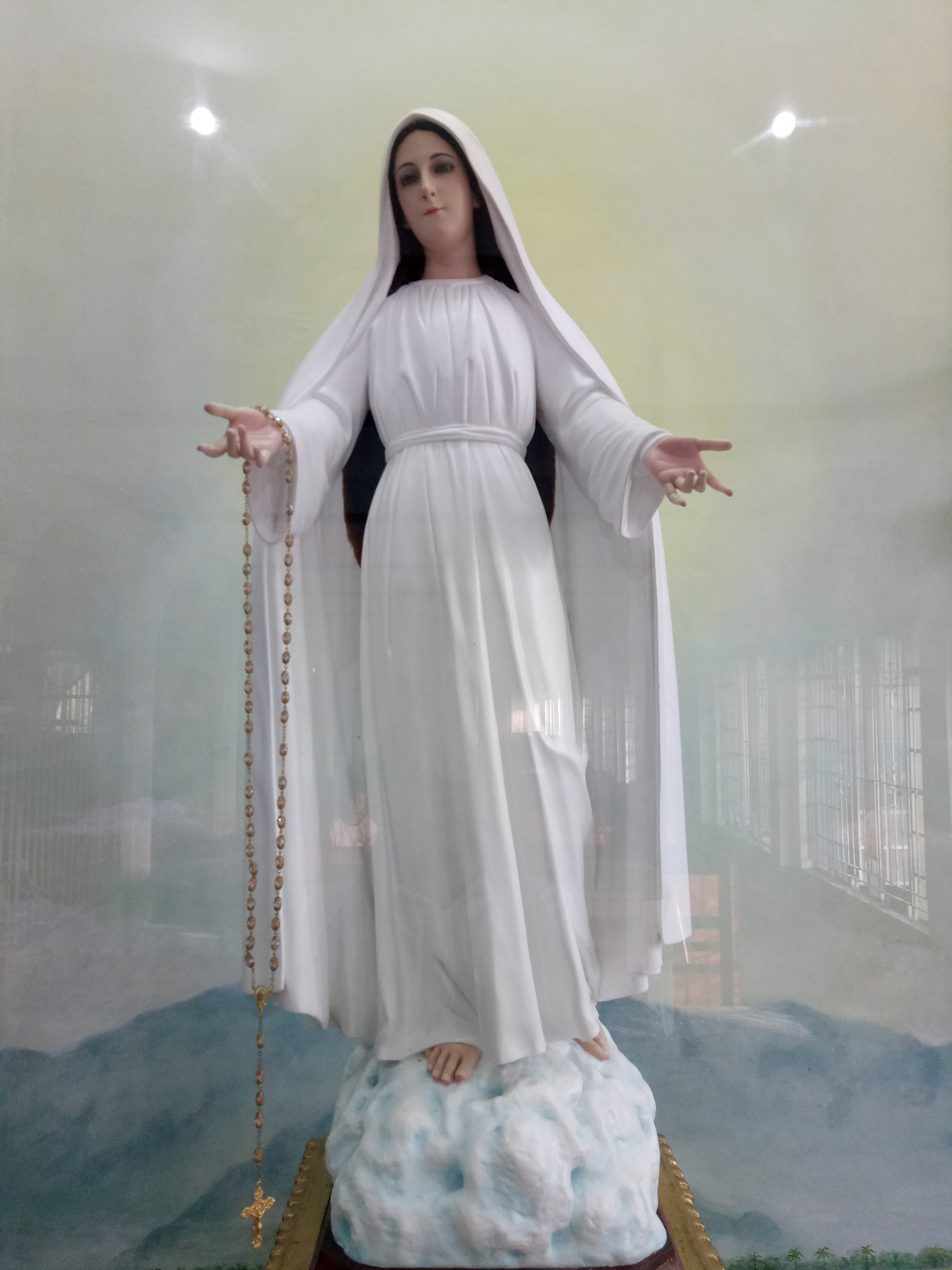 Our Lady of Mediatrix of All Grace located at Carmel Church in Lipa, Batangas in the Philippines